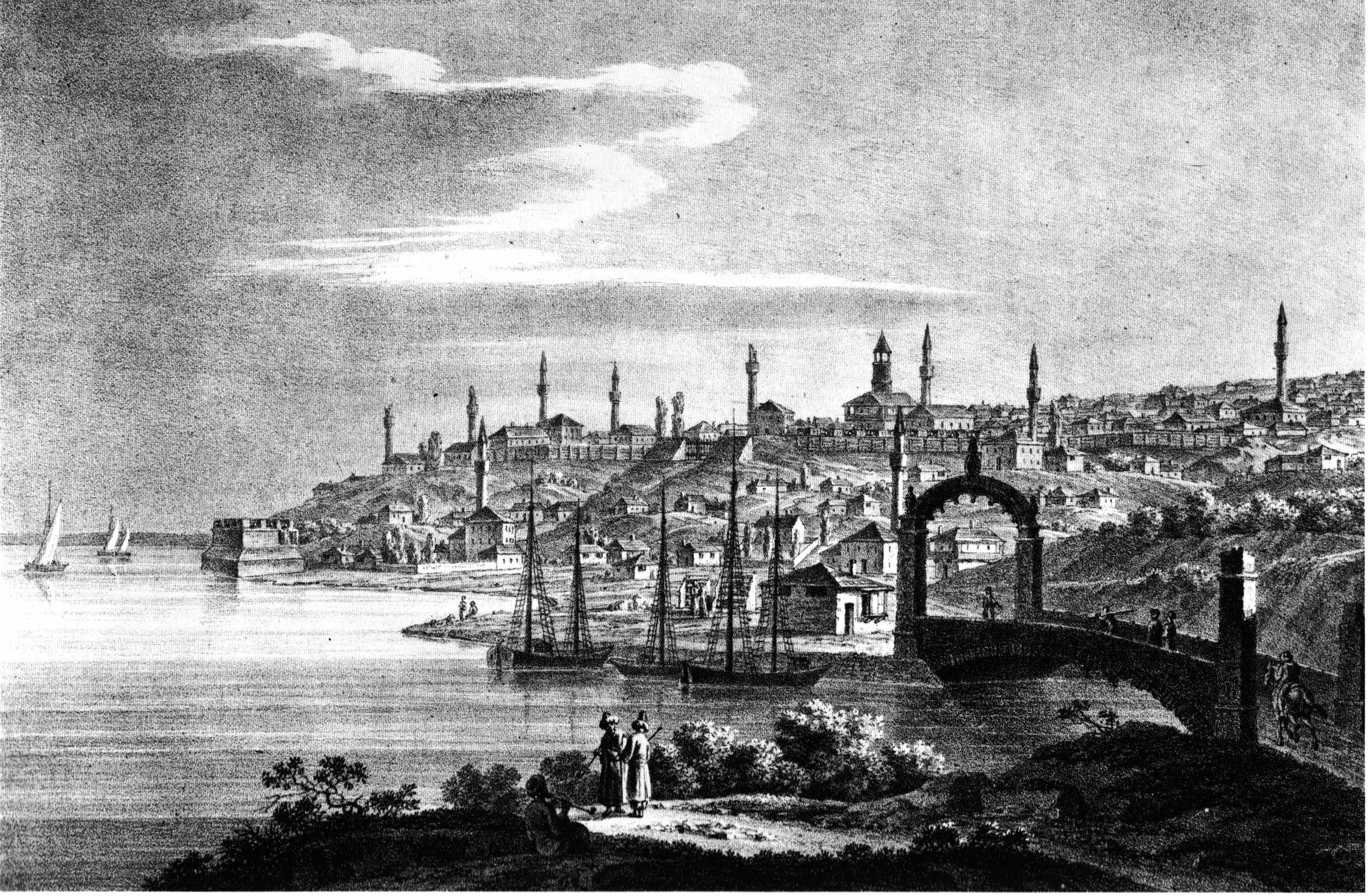 Rousse in Bulgaria 1824. Drawing by Erminy, lithographing by A. v. Saar